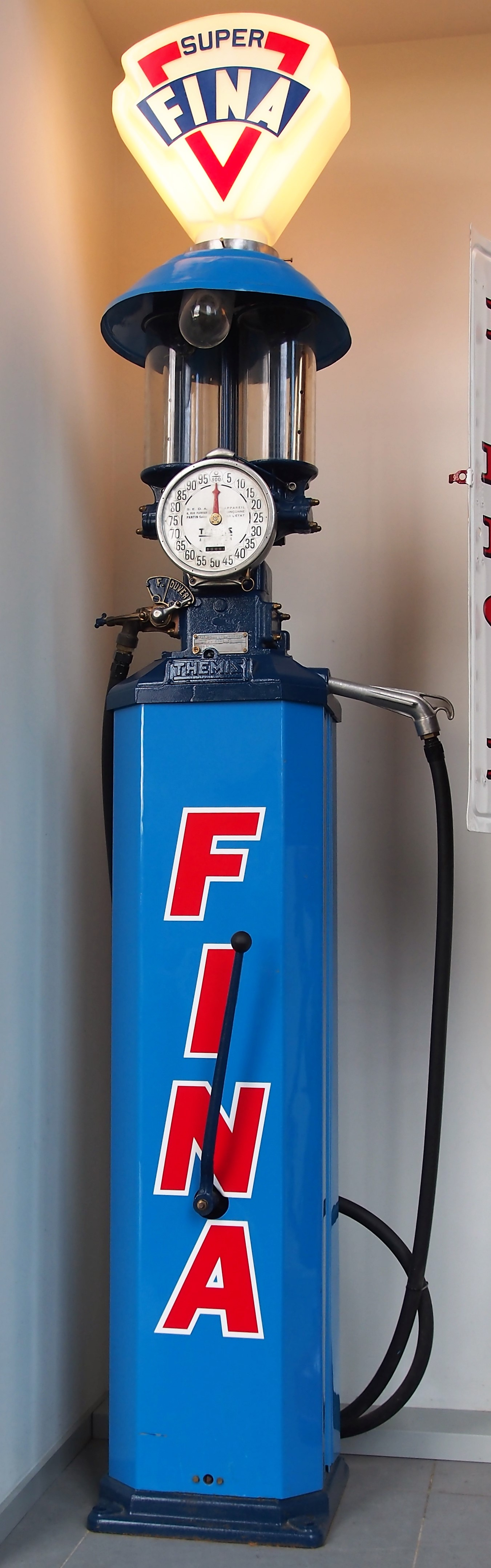 Old petrol pumps in the Louwman Museum.